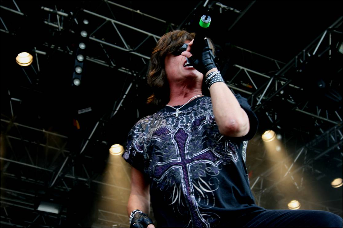 Over The Rainbow at Norway Rock Festival 2010